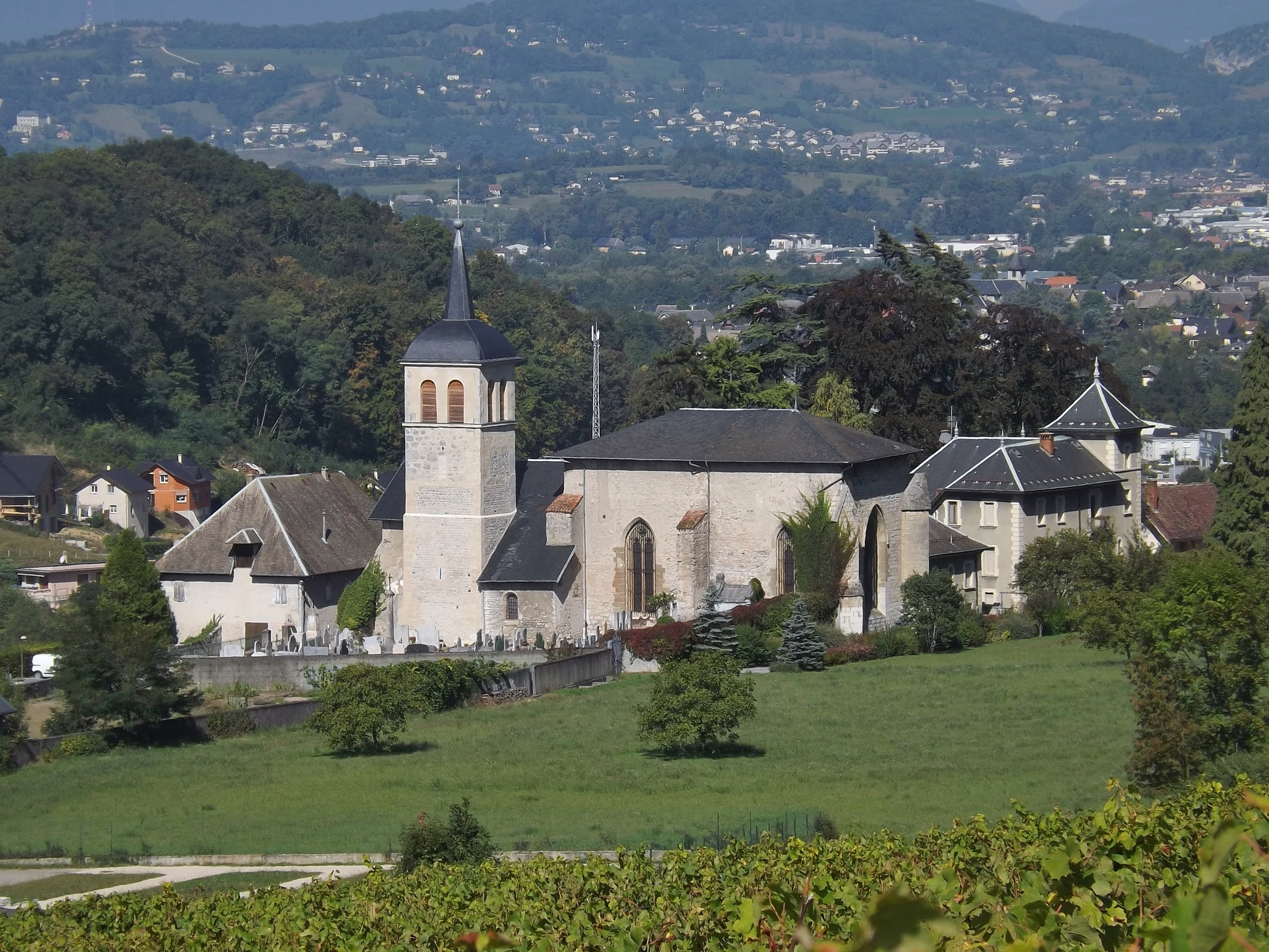 Sight of the église Saint-Georges du Prieuré church, on the French commune of Saint-Jeoire-Prieuré, near Chambéry, in Savoie.